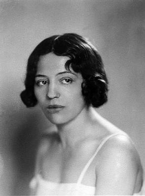 Zofia Stryjenska (born May 13, 1891, Kraków, died 1976, Geneva ) - Polish painter, illustrator, graphic artist, stage designer; prominent representative of the art deco movement, wife of Karol Stryjeński.